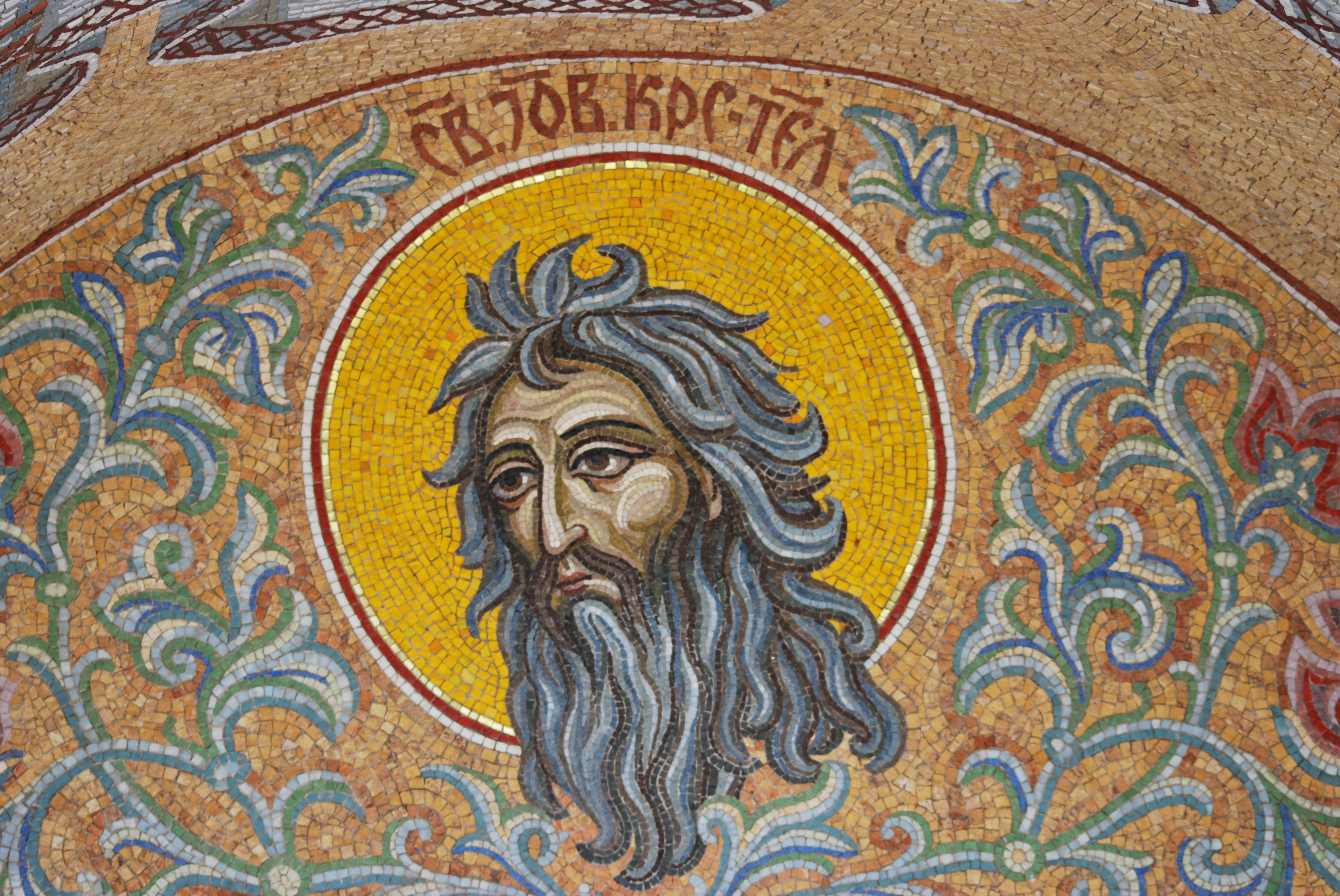 Mosaic in Holy Trinity Church in Radoviš, Macedonia